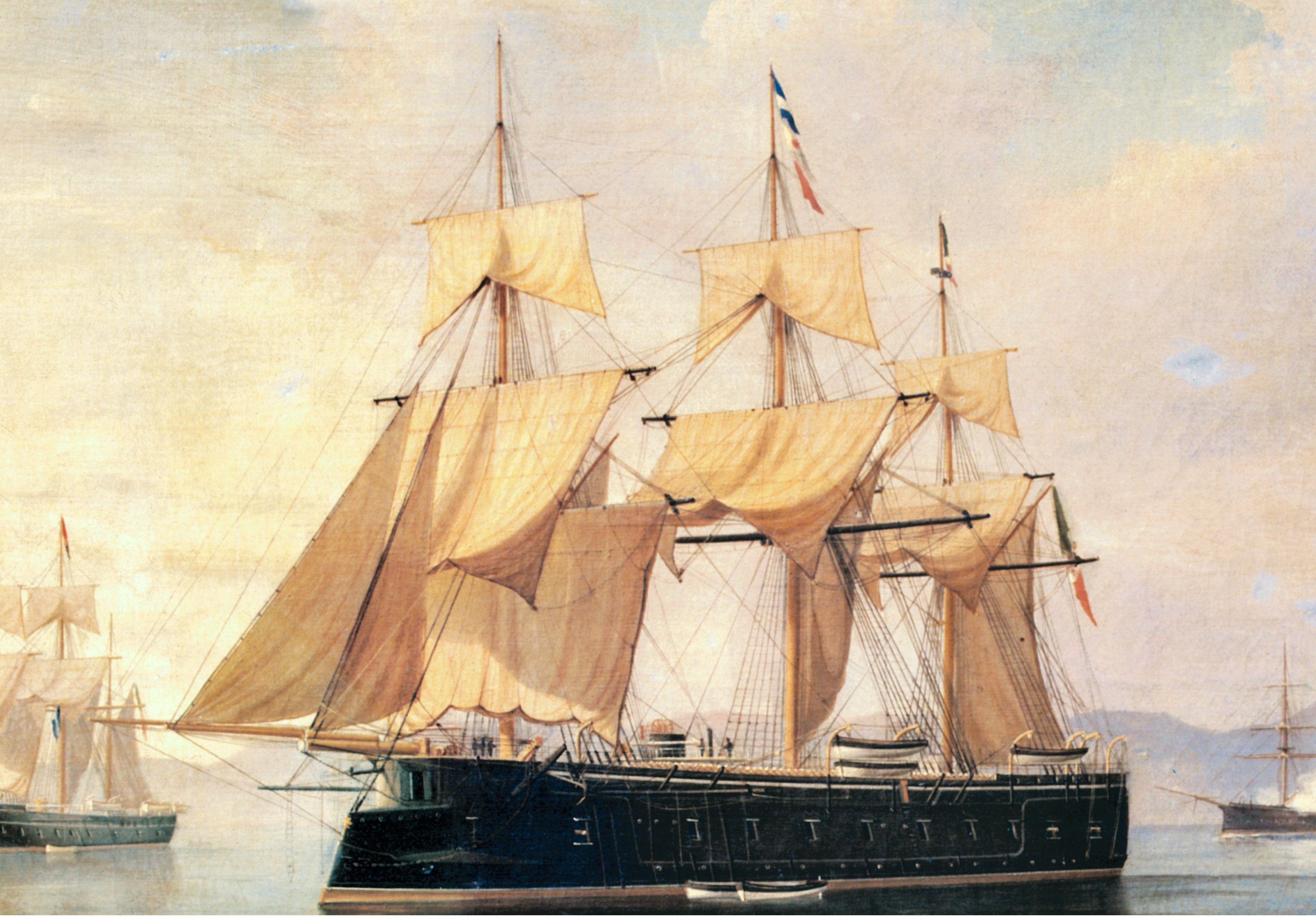 Italian Royal Navy frigade “Principe Amedeo” (1872-1895) in the Gulf of Naples. It was built in 1865 and commissioned in 1872; decommissioned in 1895 was then demolished (oil on canvas).